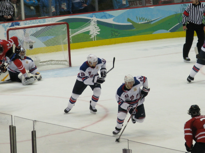 United States forwards Joe Pavelski (#16, white) and Ryan Callahan (#24, with puck) move the play against Canada during the 2010 Winter Olympics.